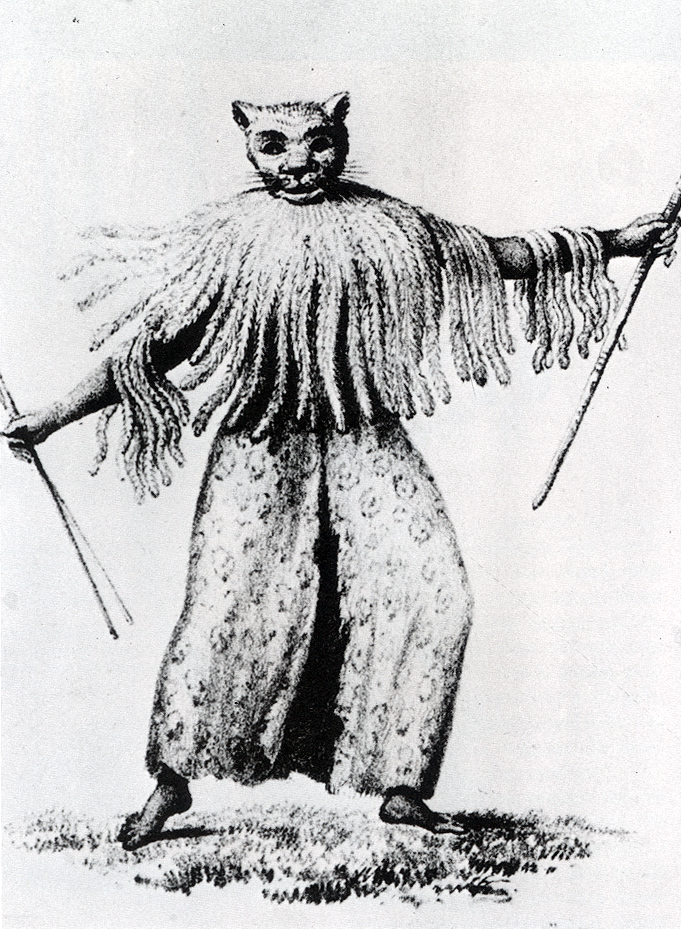 Dingane's praise singer, as seen and depicted by Allen Francis Gardiner. The singer appeared at the end of each dance. Gardiner described him as such: "Enveloped in the skin of a panther, he bore no resemblance to a human being.